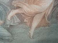 Detail of original engraving "The Hours" by Francesco Bartolozzi showing filmy gown on the legs of a nymph